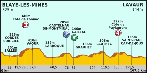 Profil of the 11th stage of the Tour de France 2011